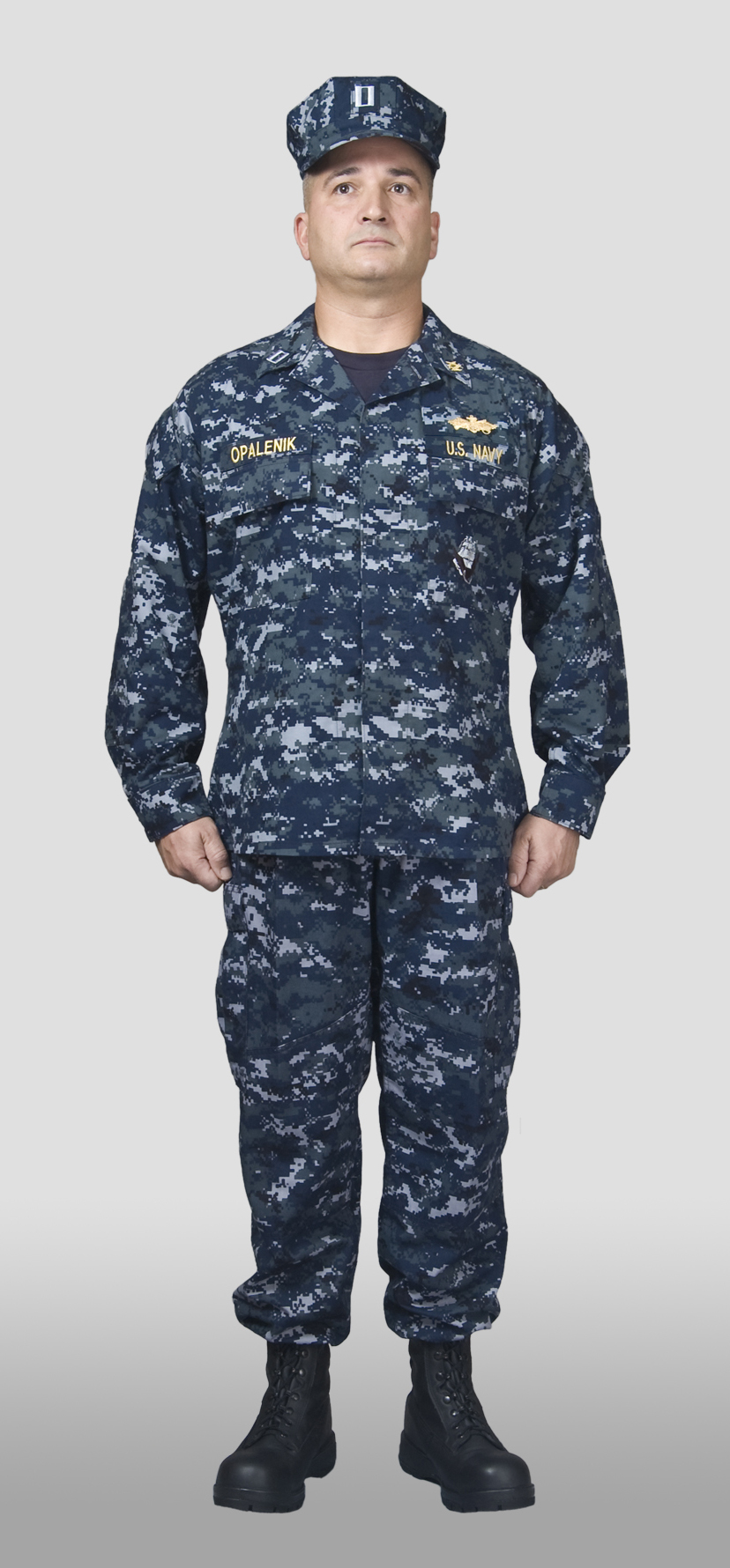 LT Opalenik, USN